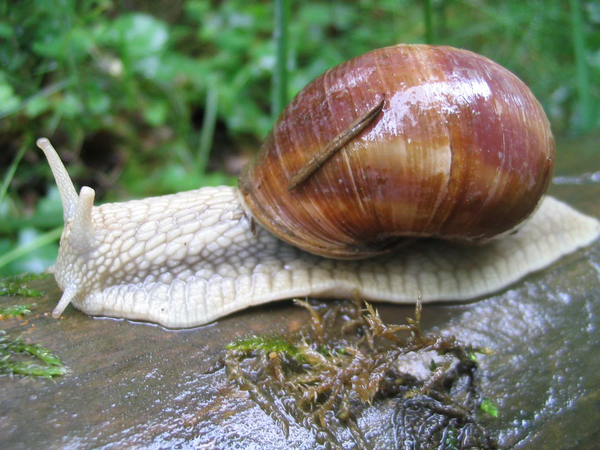 Roman or Edible Snail